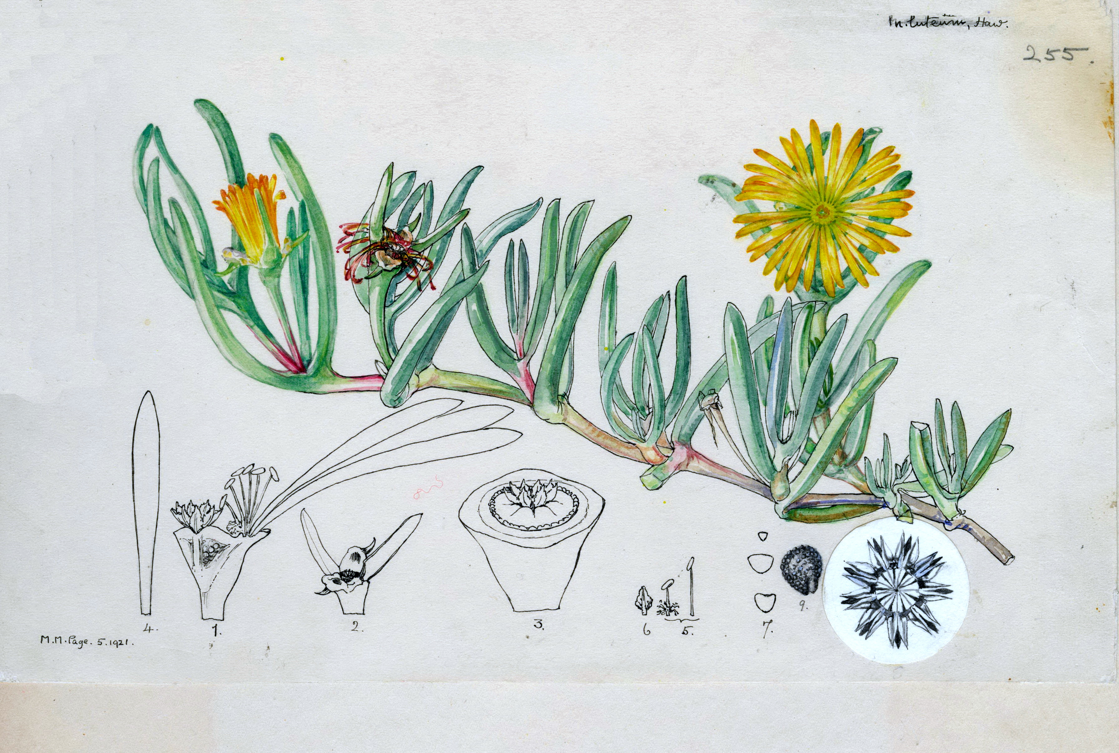 Malephora lutea (Haw.) Schwantes - family Aizoaceae